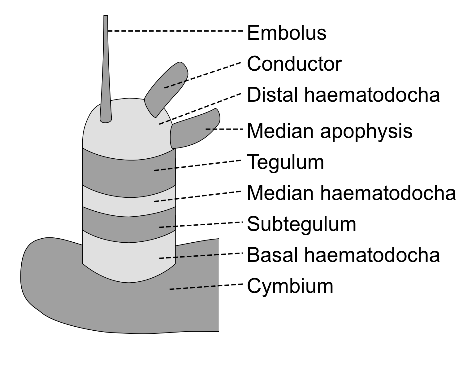 Highly stylized and simplified diagram of an inflated spider palpal bulb, based very loosely on Figs 5–8 in Coddington, J.A. (1990). "Ontogeny and homology in the male palpus of orb-weaving spiders and their relatives, with comments on phylogeny (Araneoclada: Araneoidea, Deinopoidea)". Smithsonian Contributions to Zoology 496.